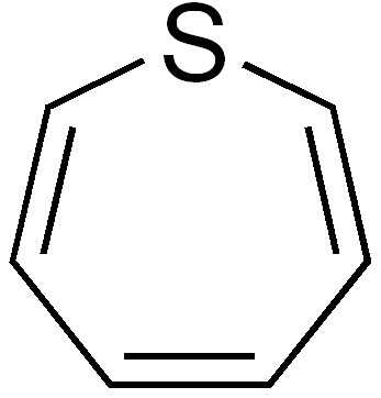 chemical structure of thiepine